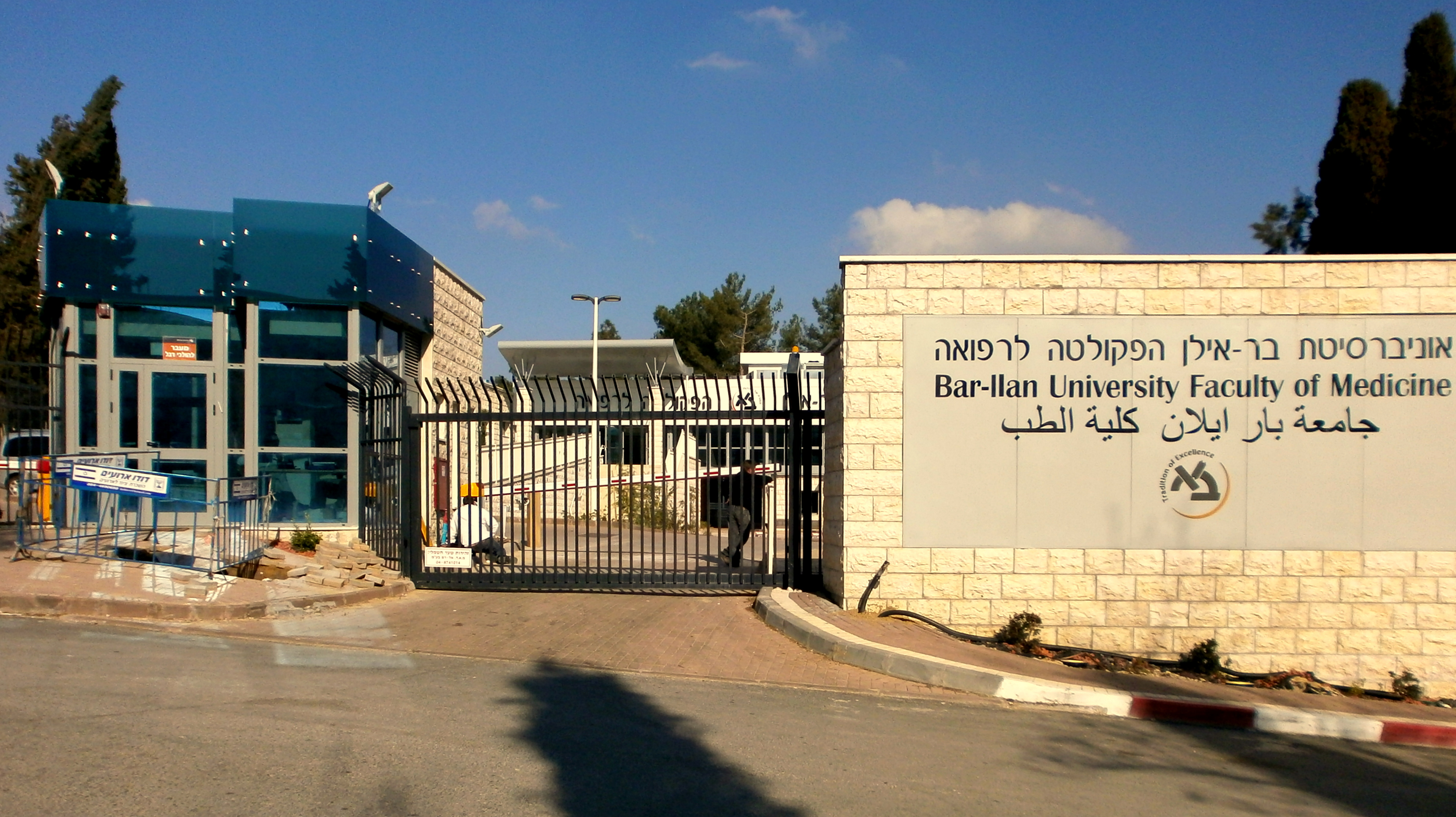 The main entrance to the Bar-Ilan Faculty of Medicine, Safed, Israel.